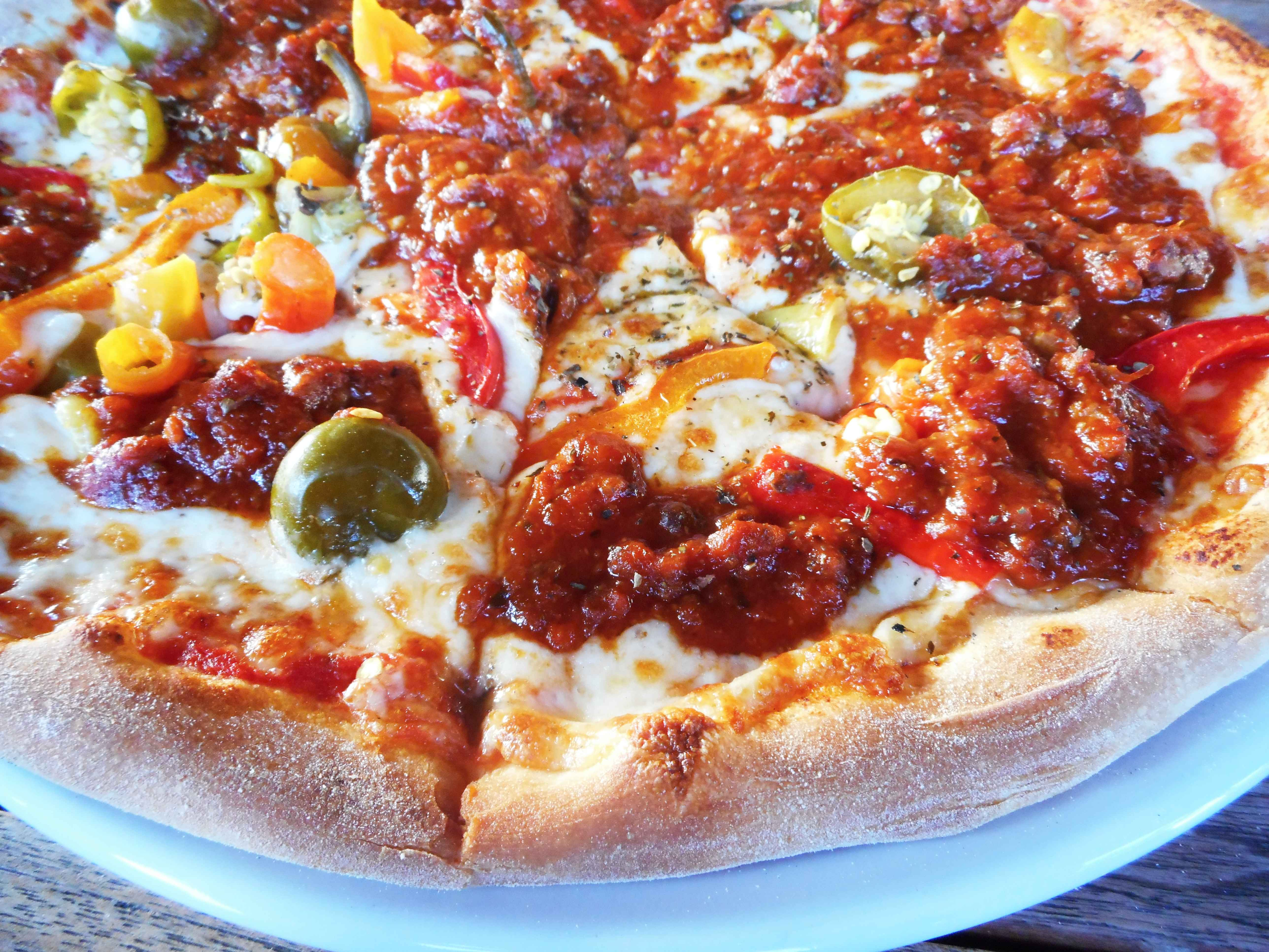 Diavolo Pizza